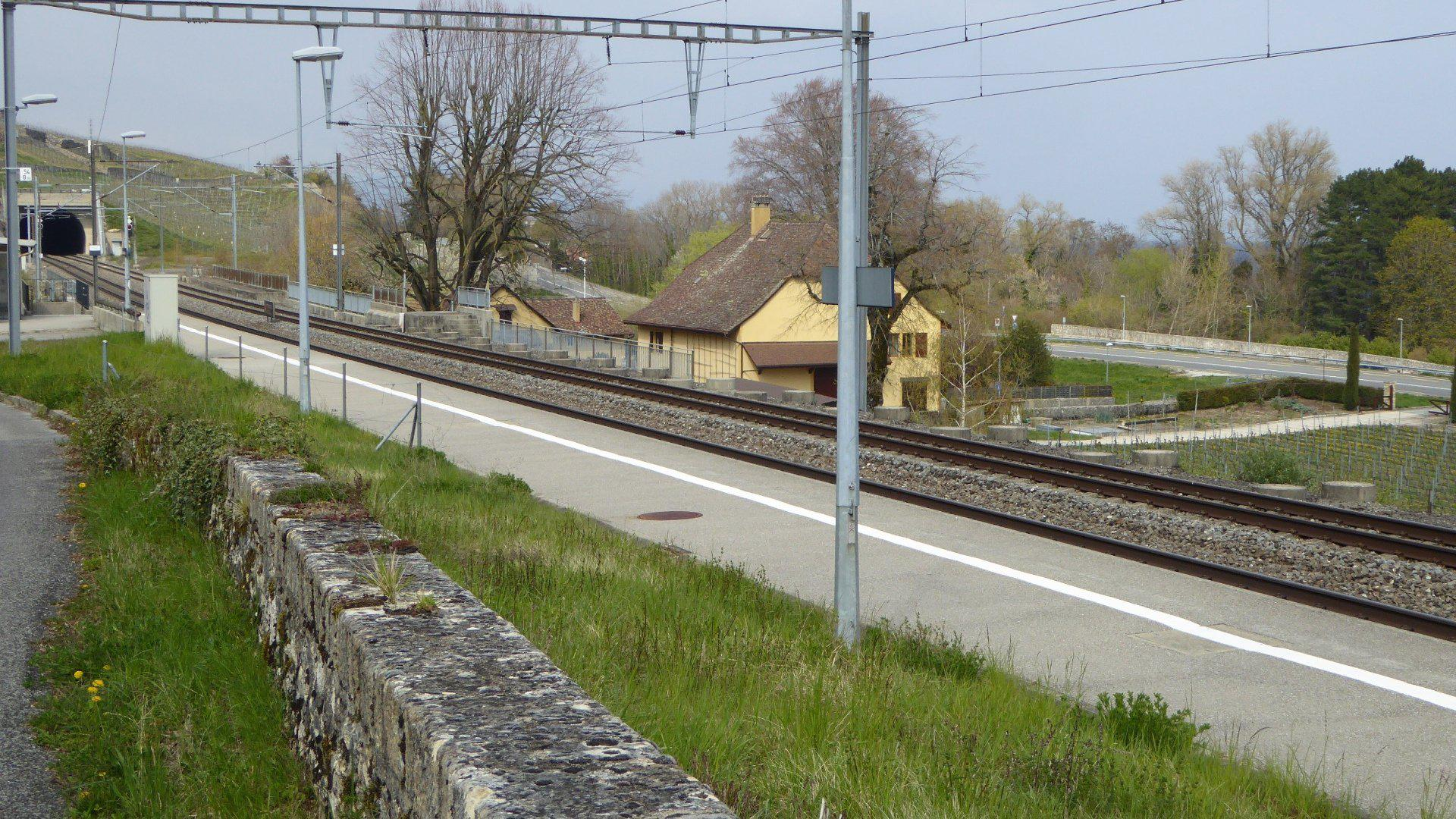 Vaumarcus railway station in La Grande Béroche, Switzlerland.